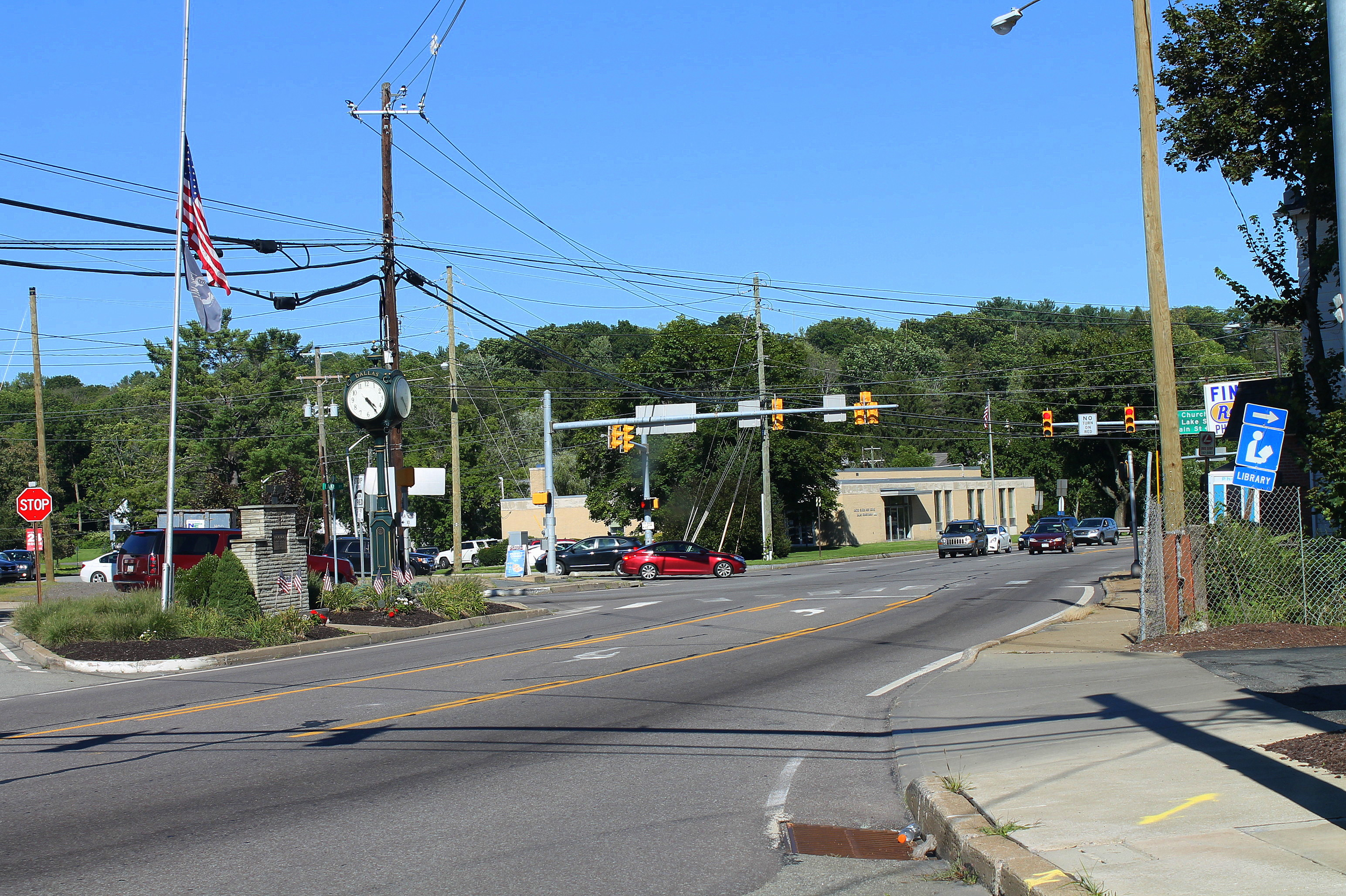 Pennsylvania Route 415 as a major road in Dallas